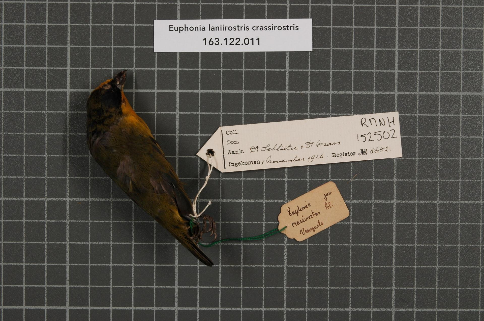 Euphonia laniirostris crassirostris Sclater, 1857